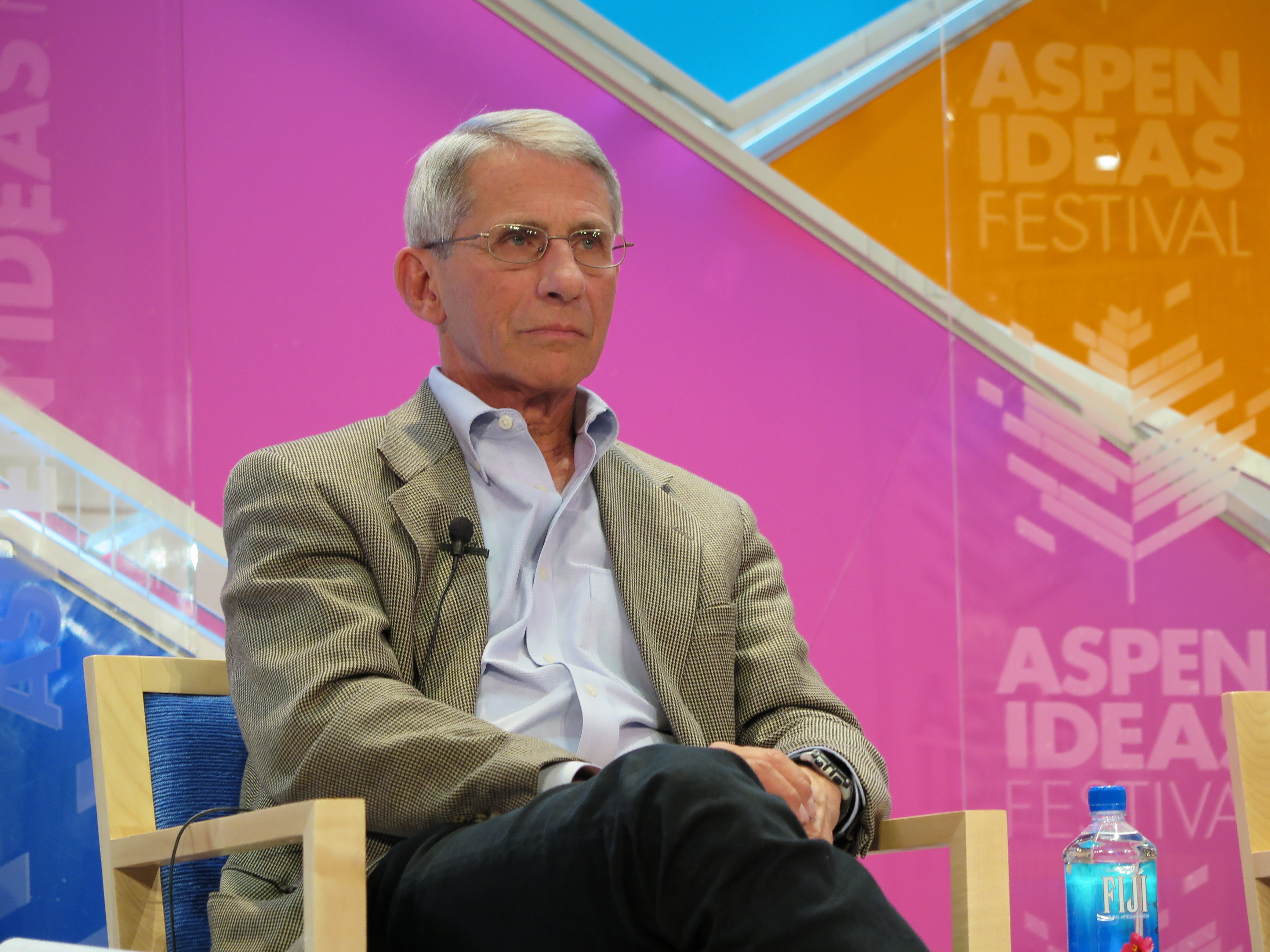 Anthony S. Fauci at Spotlight Health Aspen Ideas Festival 2015